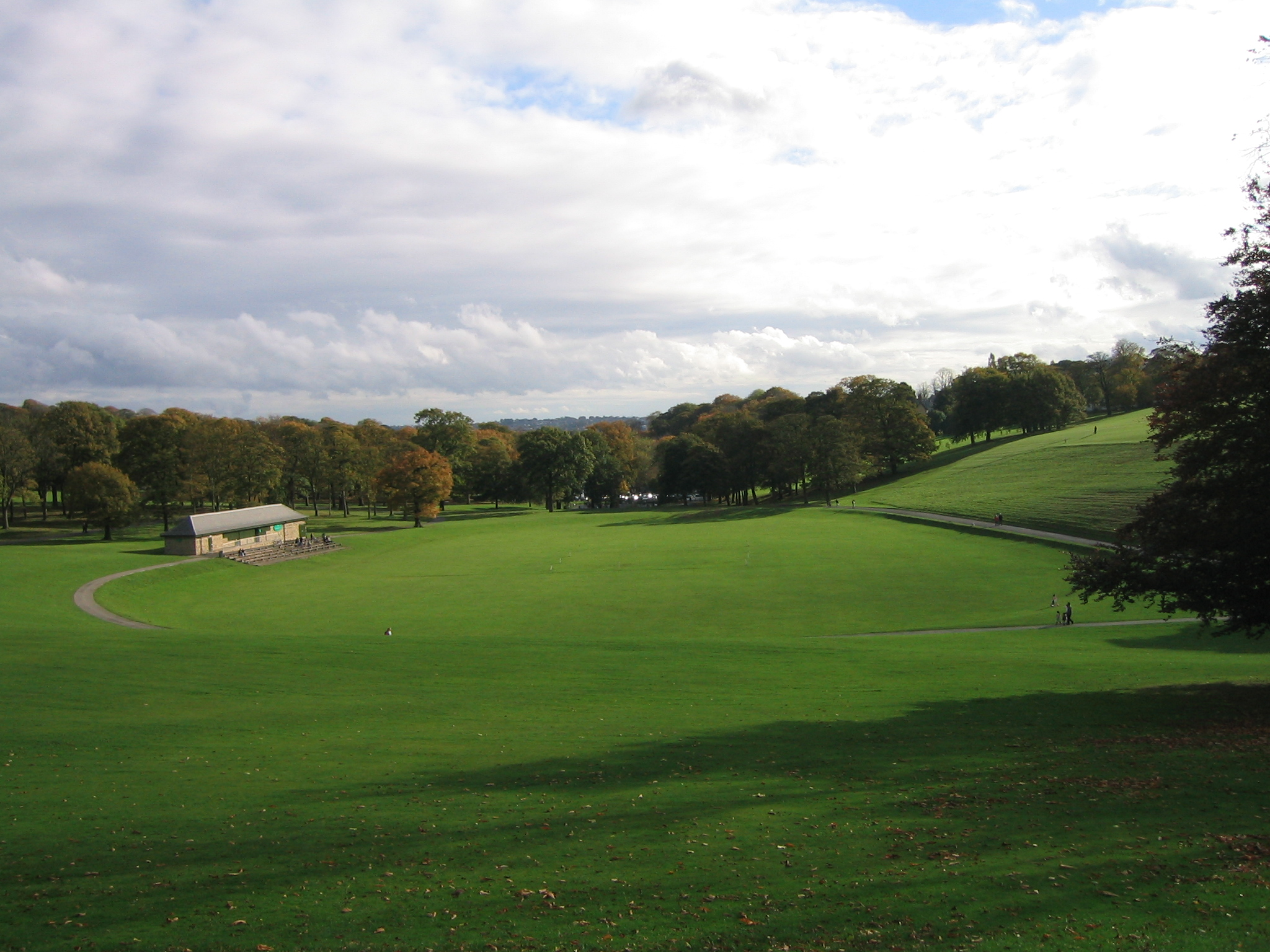 The Arena, Roundhay Park, Leeds October 2007